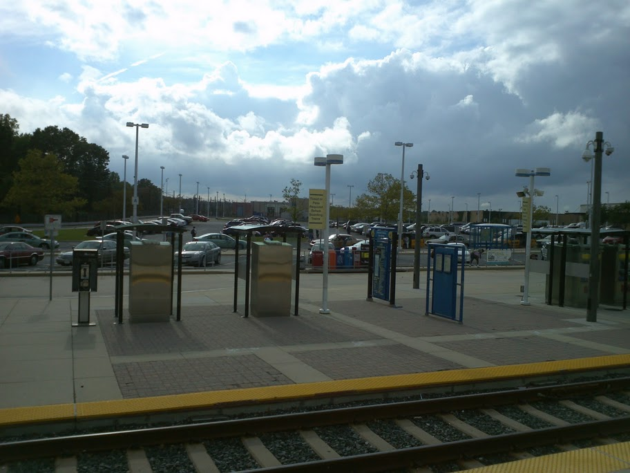 Picture of Cromwell Light Rail Station taken from the steps of the train as I boarded to head to an Orioles-Red Sox game.